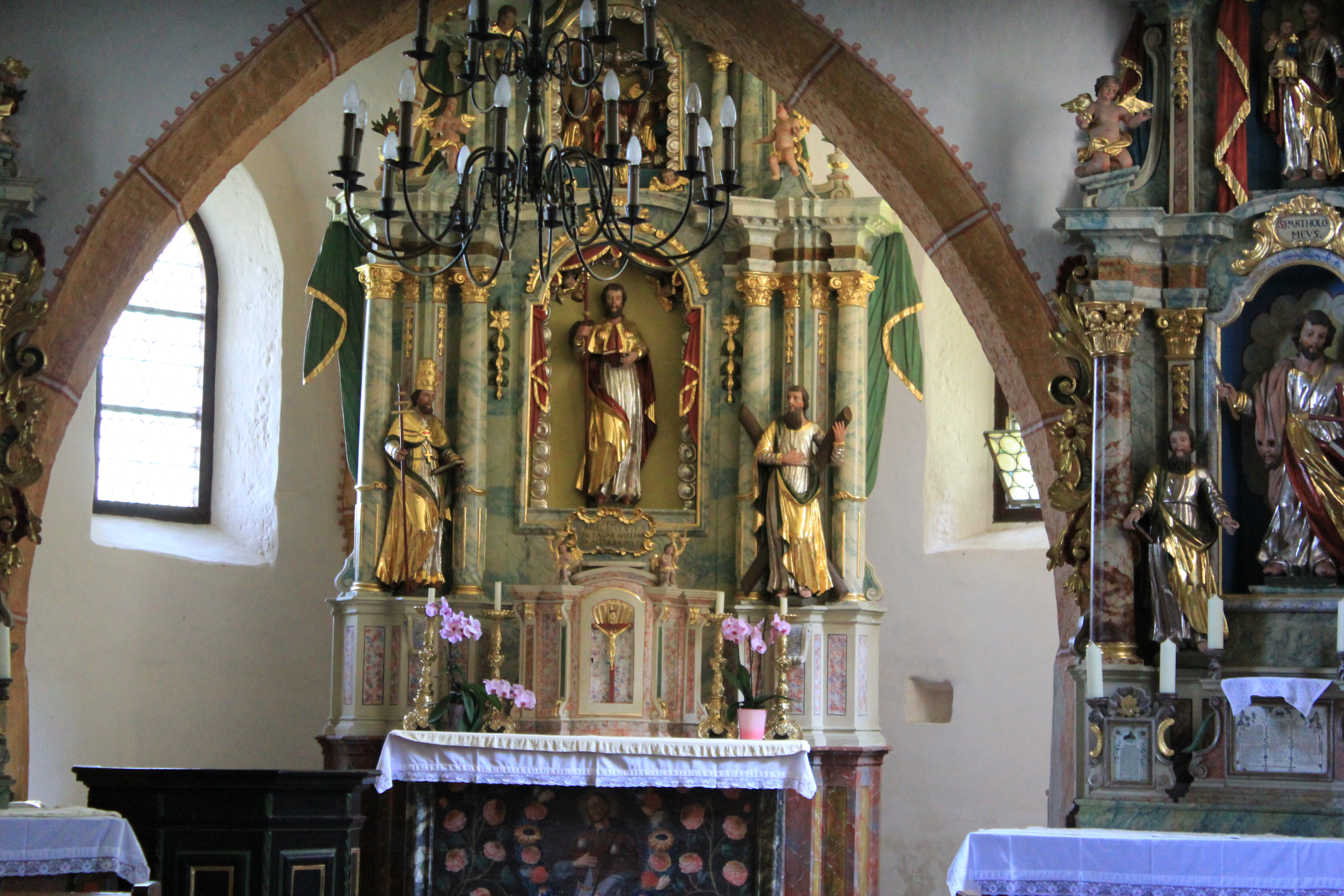 Church in Klopein in the community of Sankt Kanzian am Klopeiner See